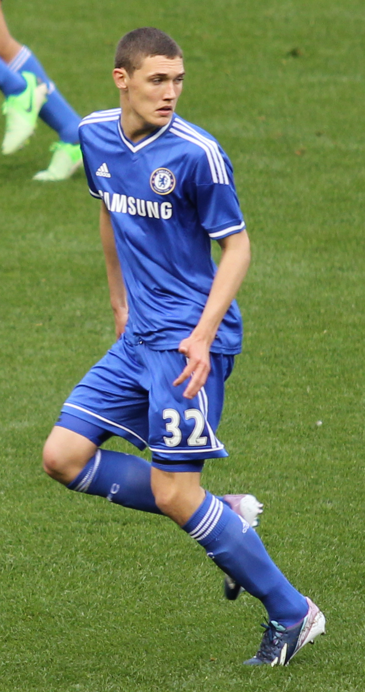 Chelsea FC-17